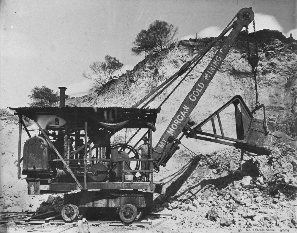 Steam shovel workng at Mount Morgan Mine, 1905